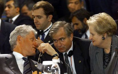 The President confers with National Security Advisor Sandy Berger and Secretary of State Madeleine Albright at the opening ceremony of the 54-nation OSCE Summit in Istanbul, Turkey.